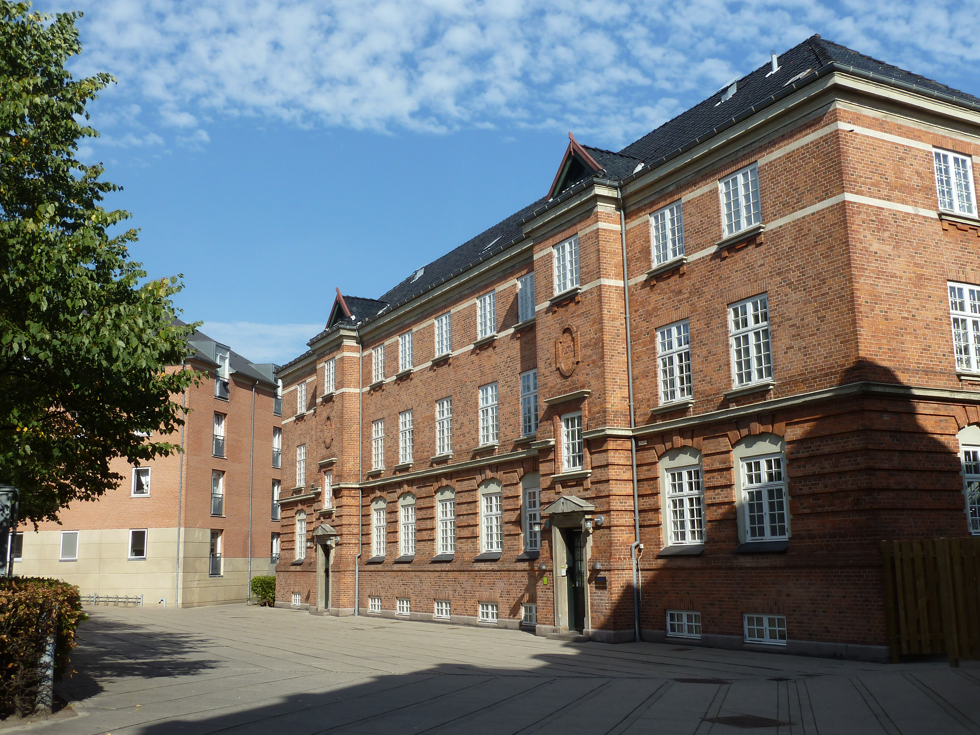 One of the buildings in the grounds of the former Østerfælled Barracks, now Østerfælled Torv, in Copenhagen, Denmark